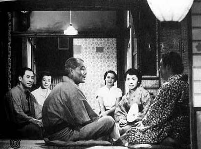 From left to right:So Yamamura, Kuniko Miyake, Chishu Ryu, Setsuko Hara, Haruko Sugimura, and Chieko Higashiyama in 1953 Japanese film Tokyo Story